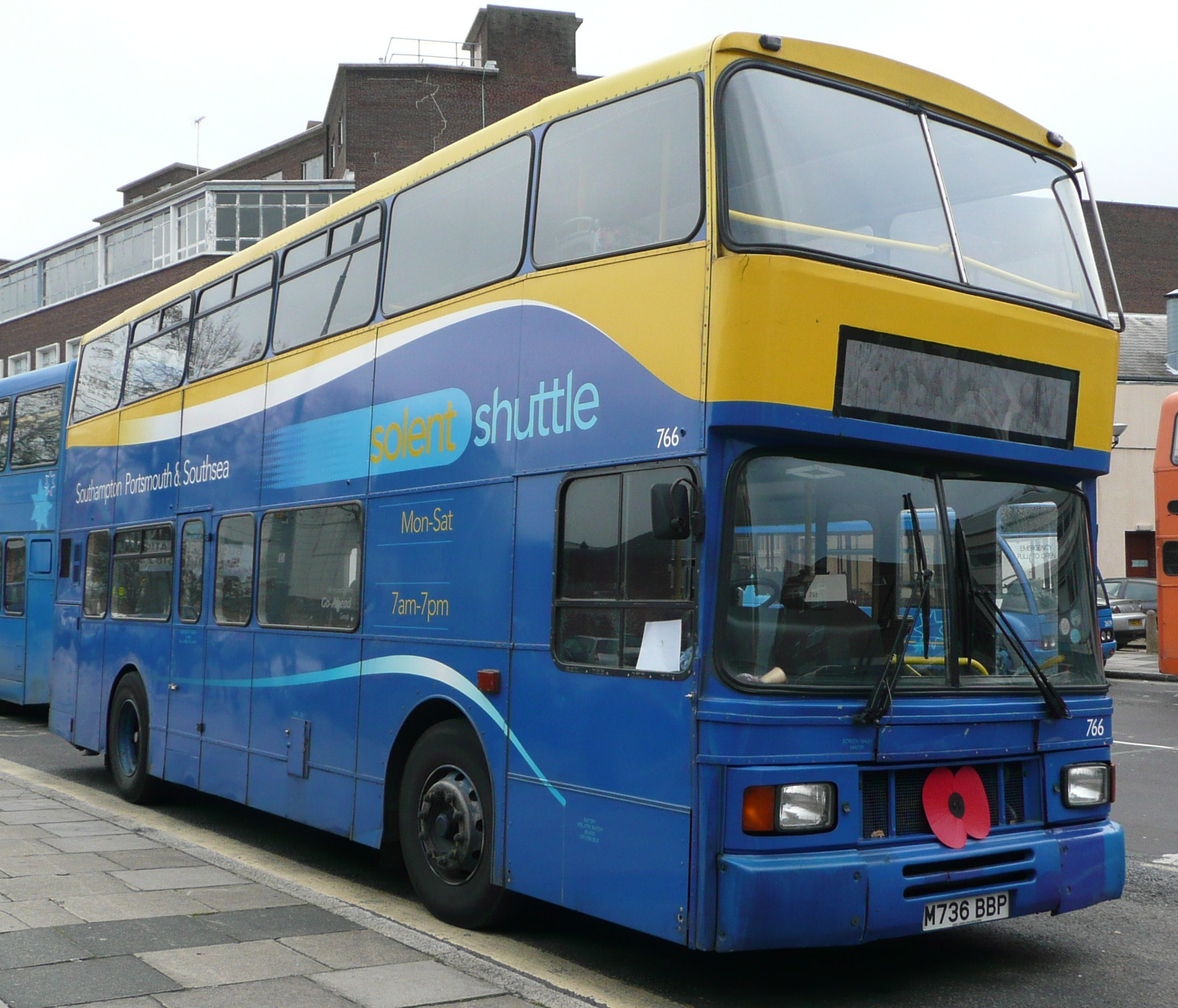 Bluestar 766 (M736 BBP), a Volvo Olympian/East Lancs laying over in Southampton. It is used on the Solent Shuttle service.